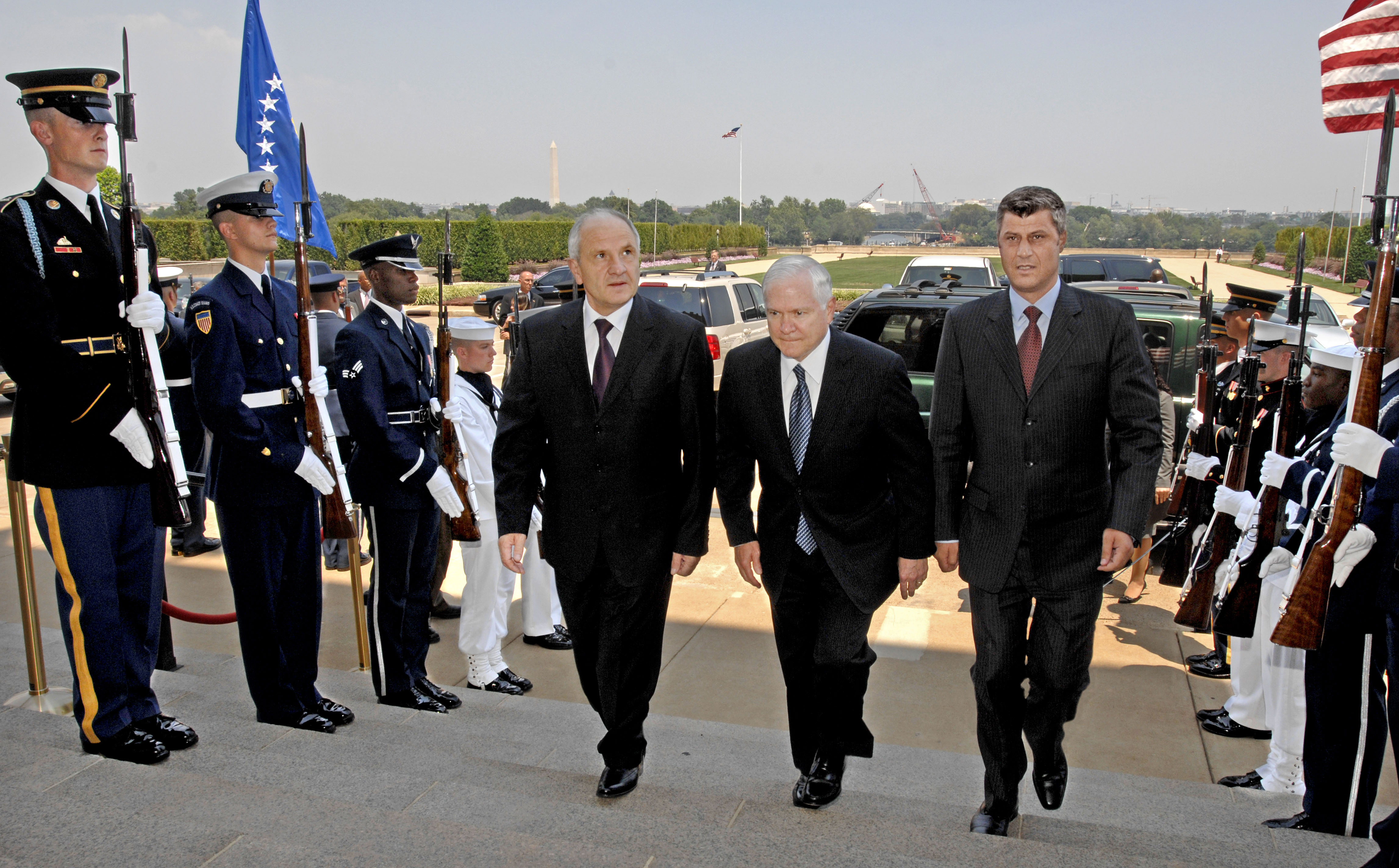 Secretary of Defense Robert M. Gates (center) escorts Kosovar President Fatmir Sejdiu (left) and Kosovar Prime Minister Hashim Thaci through an honor cordon and into the Pentagon on July 18, 2008. Gates and his senior advisors will meet with the Kosovar leadership to discuss the new nations' security requirements. DoD photo by R. D. Ward. (Released)